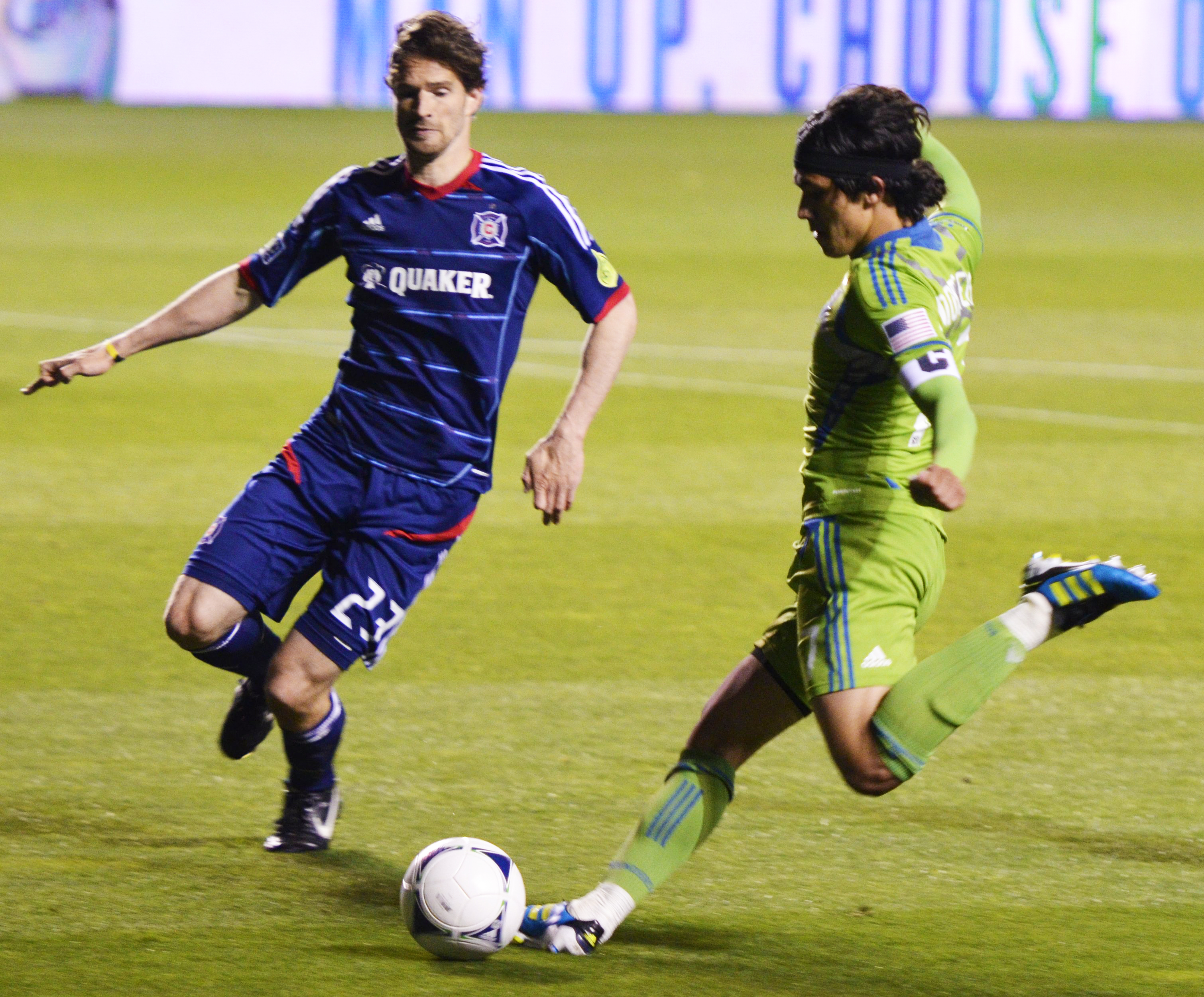 Fredy Montero of the Seattle Sounders crosses the ball in front of Arne Friedrich of the Chicago Fire. (28 April 2012)